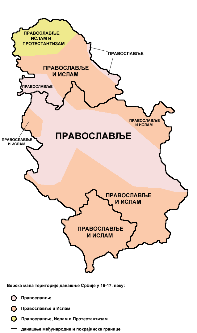 Religion map of the territory of present-day Serbia in the 16th-17th century.